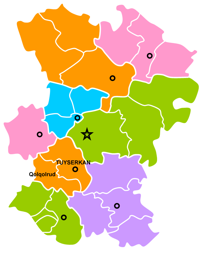 Tuyserkan sharestan Hamedan province, Administrative map